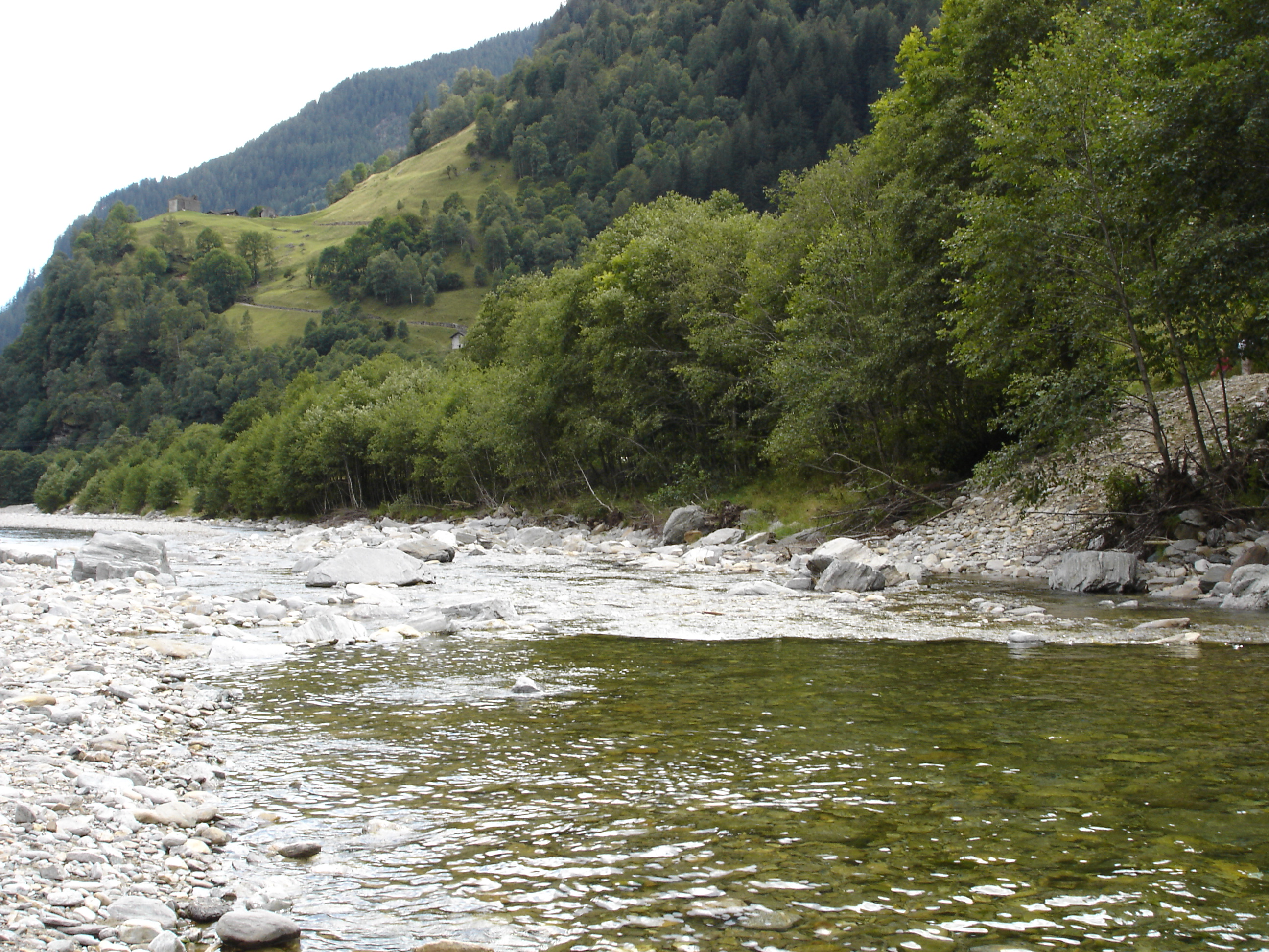 The Calancasca in Val Calanca near Selma